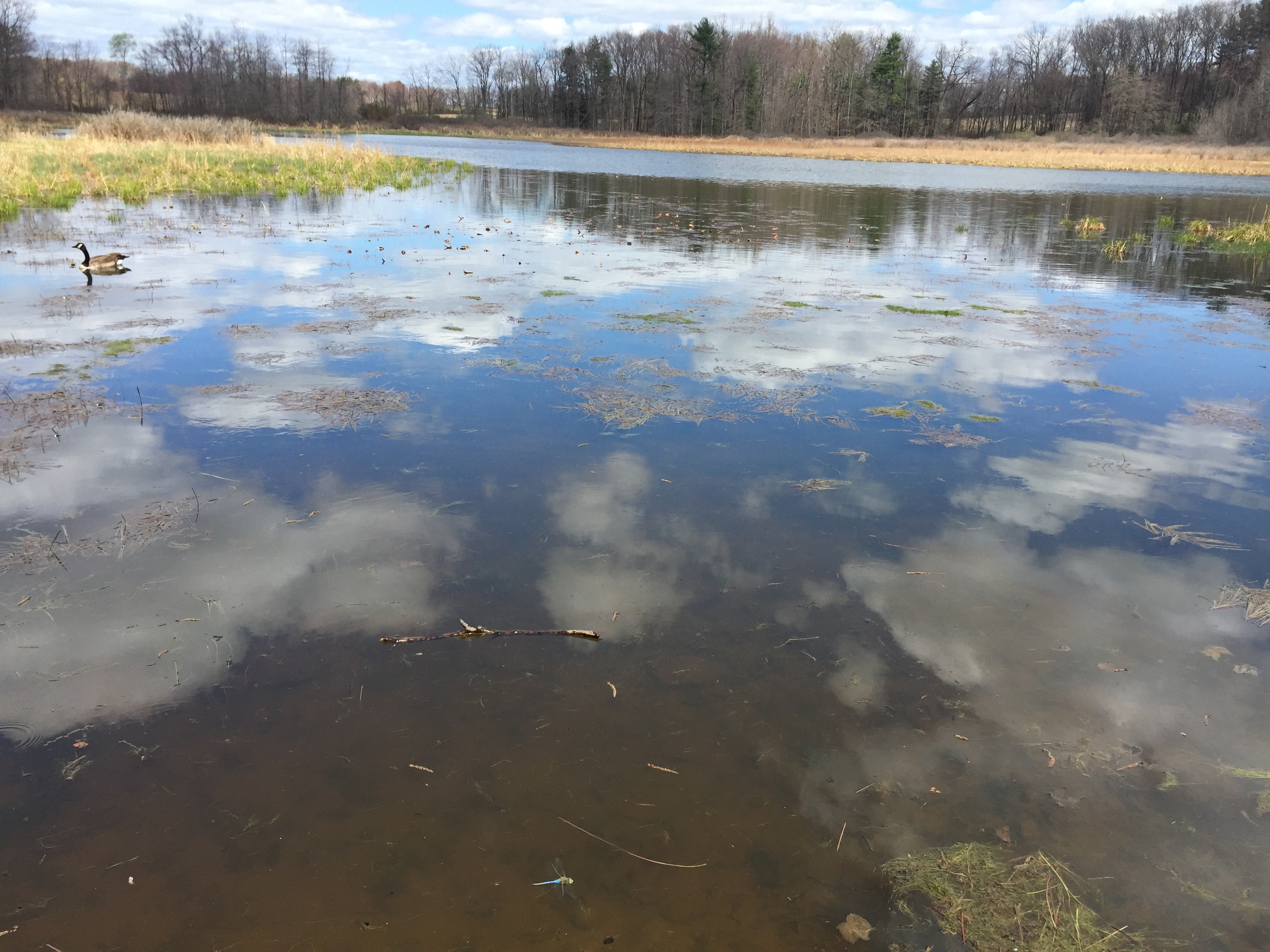 10 acre pond, a site watched over by the Frost Entomological Museum of State College Pennsylvania (associated with Penn State University)